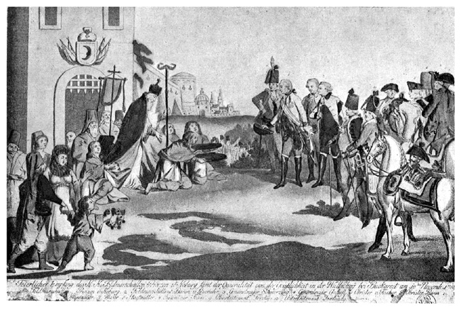 Welcoming Prince Josias of Saxe-Coburg-Saalfeld into Bucharest, 1789